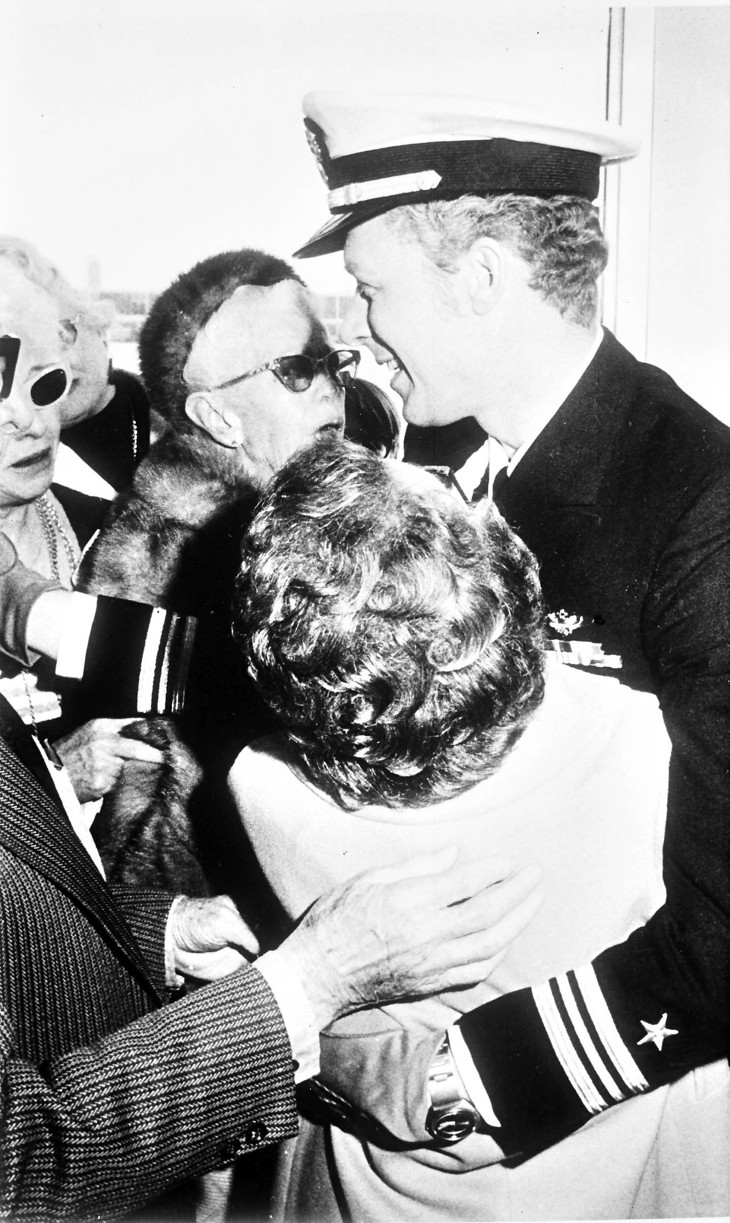 Lt. Cmdr. Phillip Butler's grandmother, wearing a fur hat and glasses, gets out of her wheelchair on March 17, 1973 to greet him in the crowd at the Tulsa airport. Butler had returned to his hometown after nearly eight years as a prisoner of war in Vietnam.